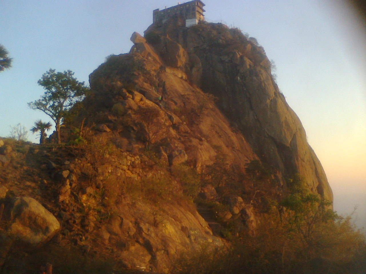 கோயில் மடம் உள்ள முகடு